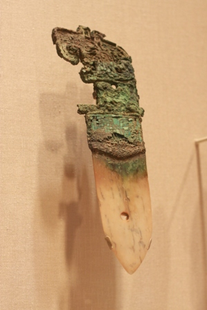 Dagger Axe China, Shang dynasty (ca. 1500-1050 B.C.) Nephrite, bronze, turquoise Gift of Mrs. P.E. Spalding and Mrs. Theodore A. Cooke, 1936 (4266) Wikipedia Loves Art at the Honolulu Academy of Arts This photo of item # 4266 at the Honolulu Academy of Arts was contributed under the team name "The_Wahine_Photo_Treasure_Hunters" as part of the Wikipedia Loves Art project in February 2009. Honolulu Academy of Arts The original photograph on Flickr was taken by chungj 415—please add a comment to the original Flickr page whenever a use has been made on Wikipedia or another project. Project galleries on Flickr: this institution, this team